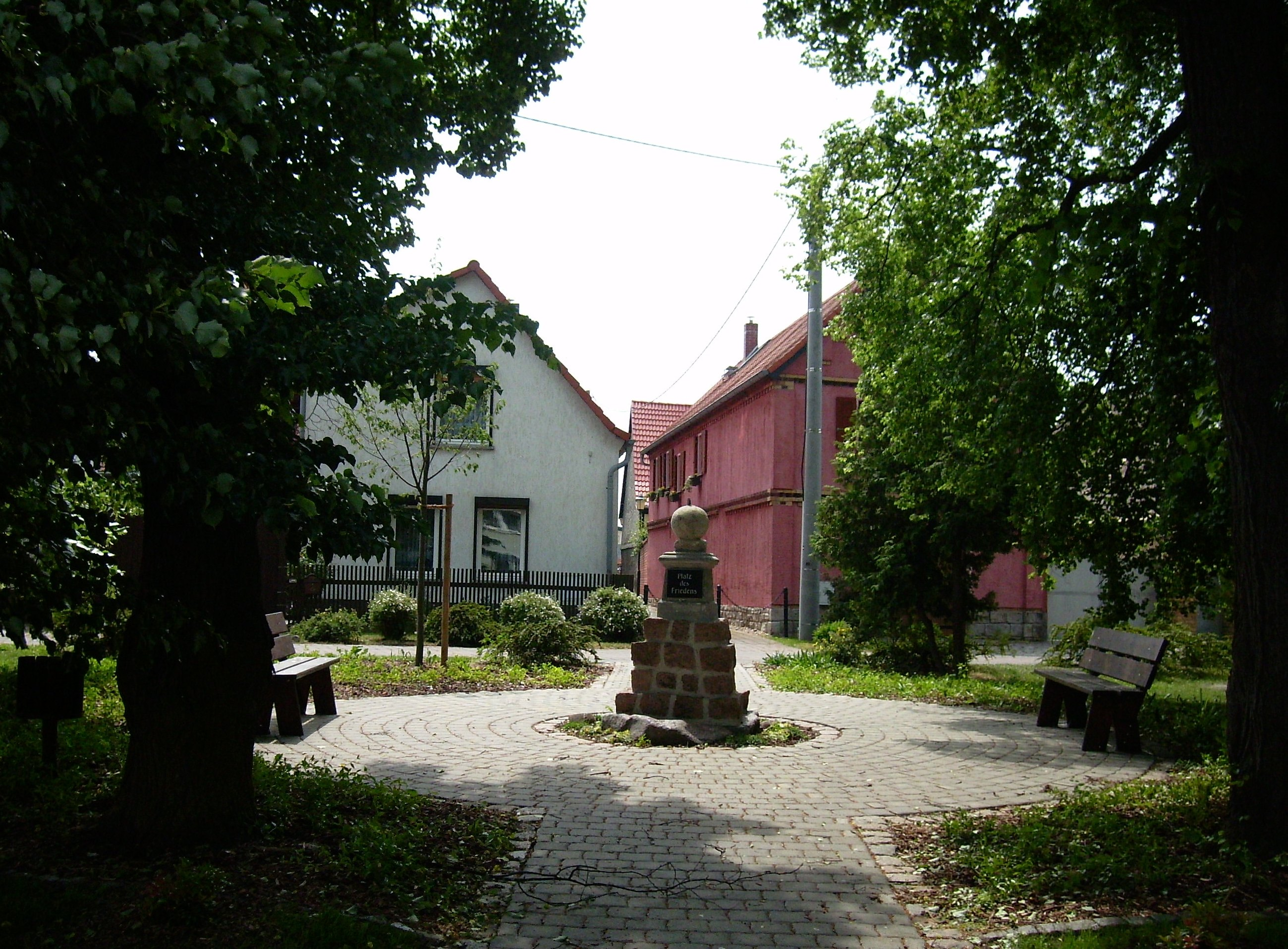 Platz des Friedens, a square in Nempitz (Bad Dürrenberg, district of Saalekreis, Saxony-Anhalt)